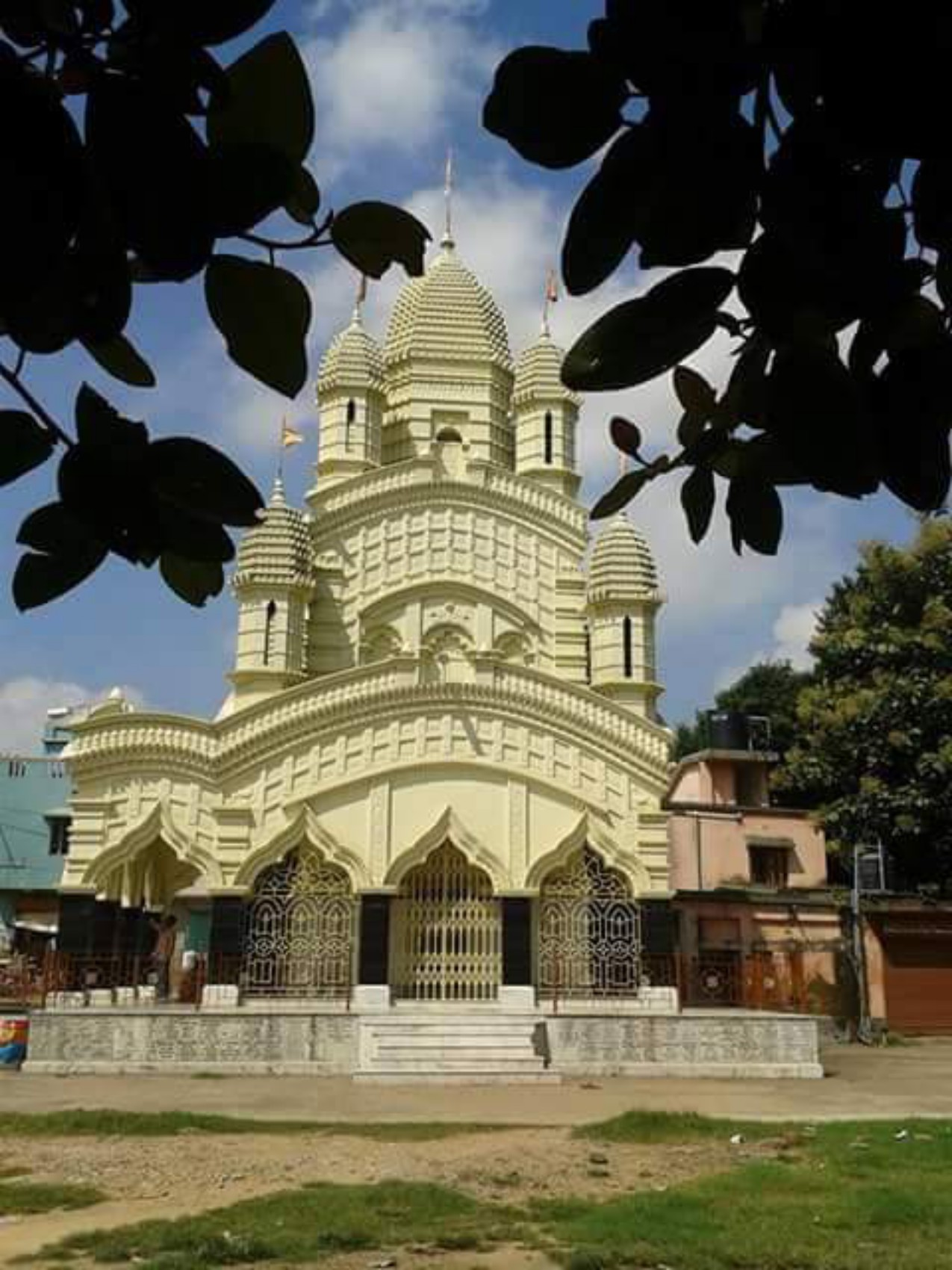 Jagat Nagar kalibari is a Kali Temple, it's popular kali Temple in Hooghly District